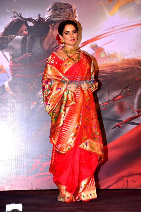 Kangna Ranaut graces the trailer launch of the film Manikarnika – The Queen Of Jhansi